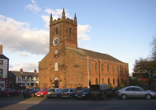 St Mary's parish church, High Street, Wigton, Cumbria, seen from the southwest